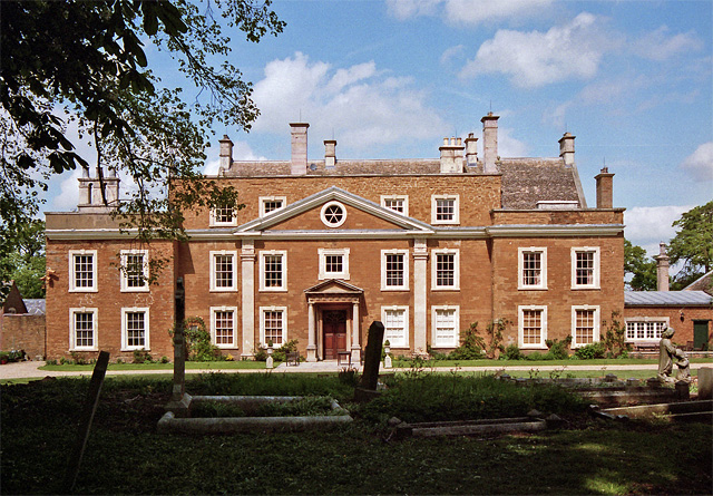 A 1750 refronting of an earlier house. Nice Doric porch. It is built of the gorgeous ironstone that I tend to associate with Northamptonshire and other parts of the east Midlands. Grade II* listed.